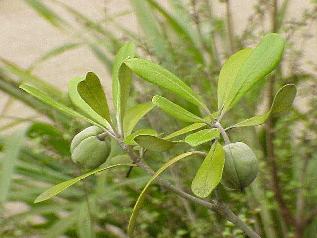 Species: Pittosporum crassifolium Family: Pittosporaceae Image No. 1